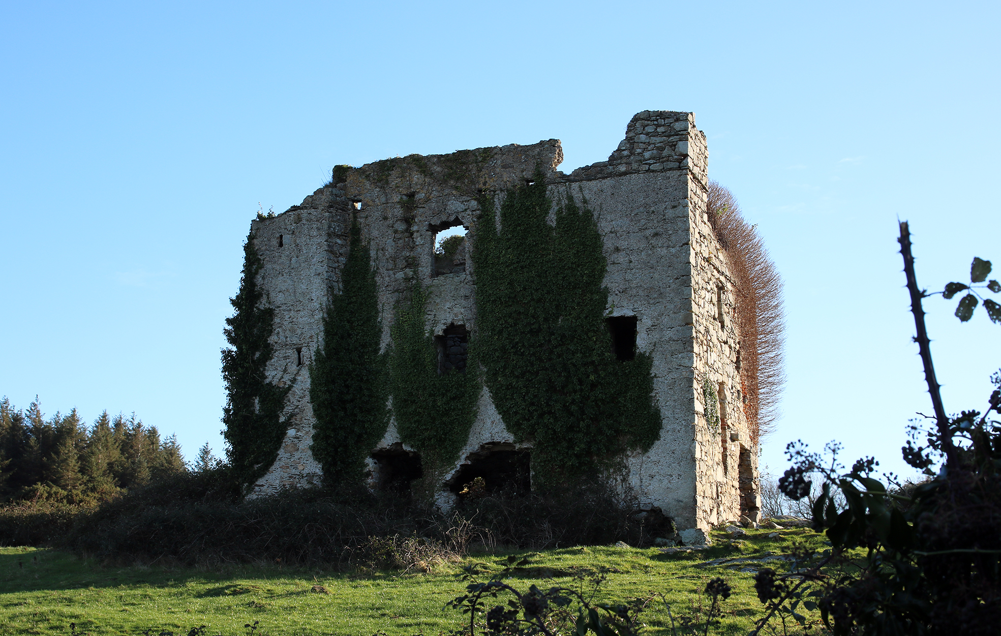 Puck's Castle, Puck's Castle Lane in February 2019. A History of the County Dublin suggests that the fortified dwelling was erected around 1537 by Peter Talbot to defend the lands from incursions by the O'Toole clan. James II visited the castle following the Battle of the Boyne in 1690 while his army was camped at nearby Lehaunstown.